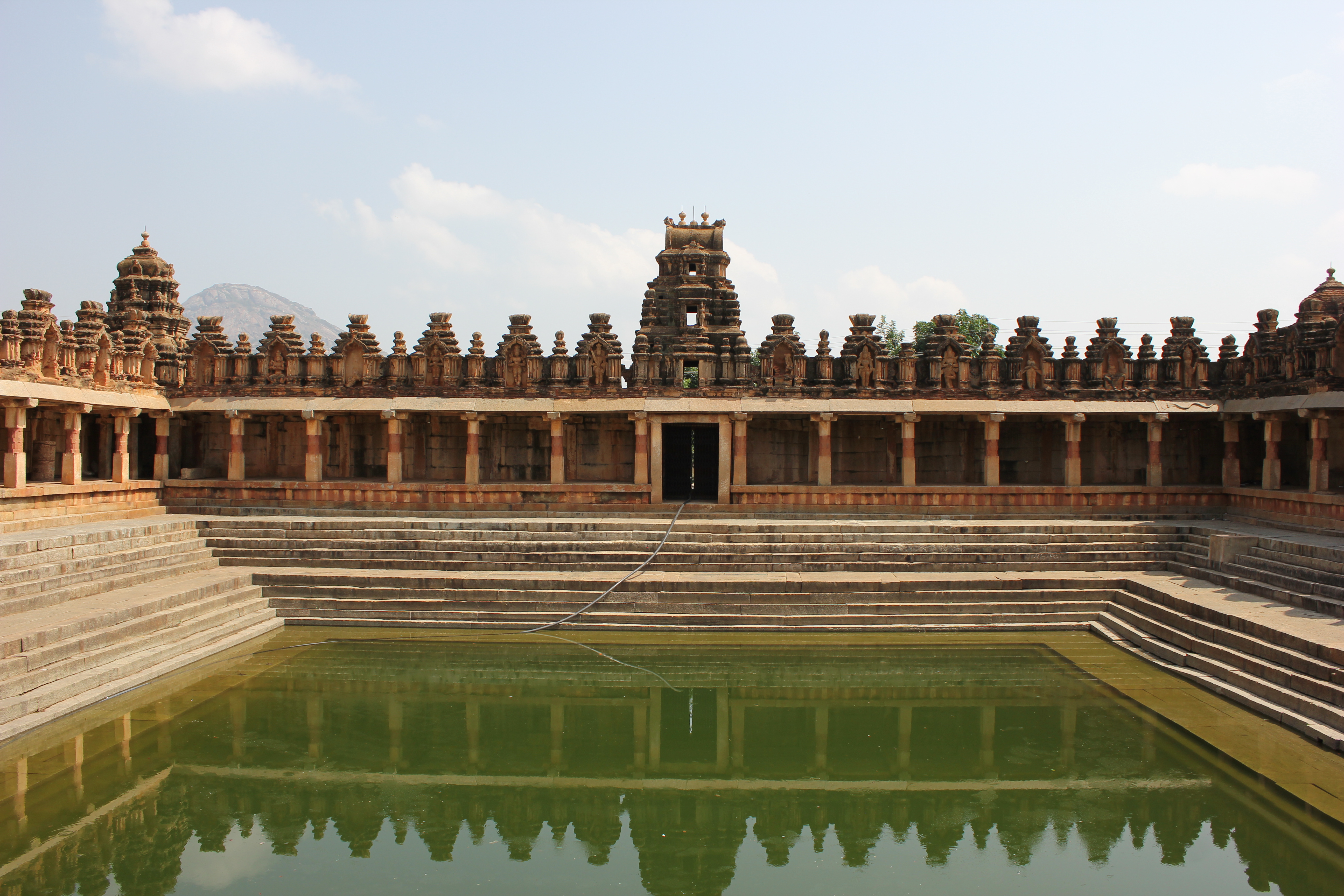 This photograph was taken at the Bhoganandishvara temple (also spelt Bhoganandishwara or Bhoganandeeshvara) at the foot of Nandi Hills, Chikkaballapur district, Karnataka state, India. The temple was originally consecrated during the rule of a local Bana dynasty king around 810 A.D. and the overall style is Dravidian. Over the centuries, the Cholas, Gangas, Hoysalas and The Vijayanagara empires made significant contributions and additions to the temple complex.